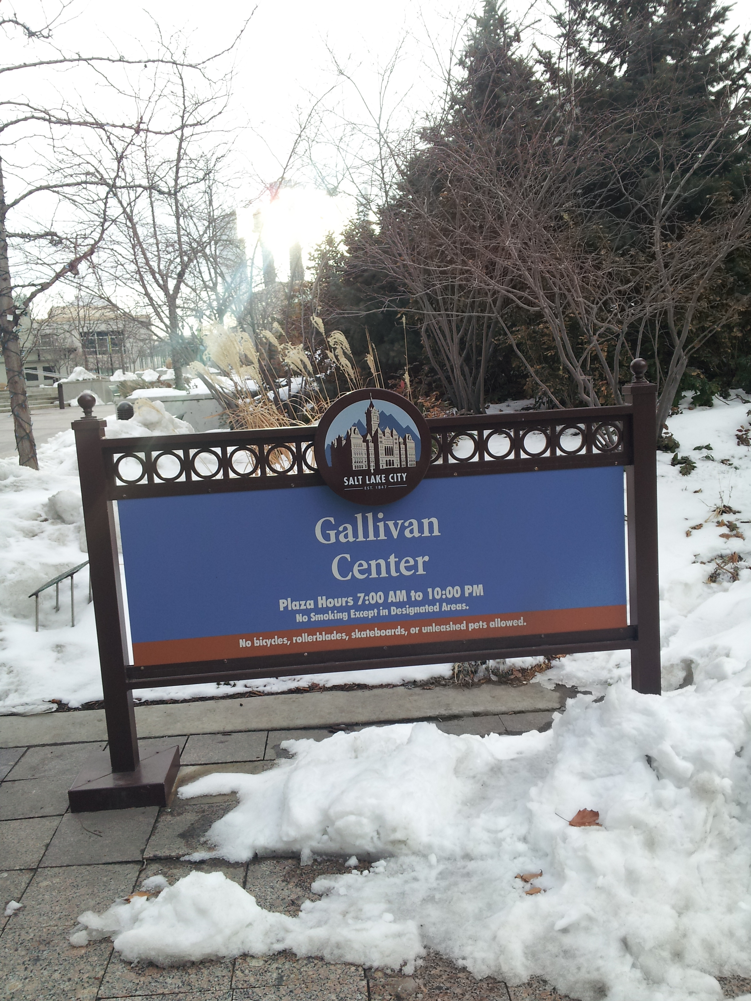 The sign welcoming you to the Gallivan Center as viewed in Winter 2013.